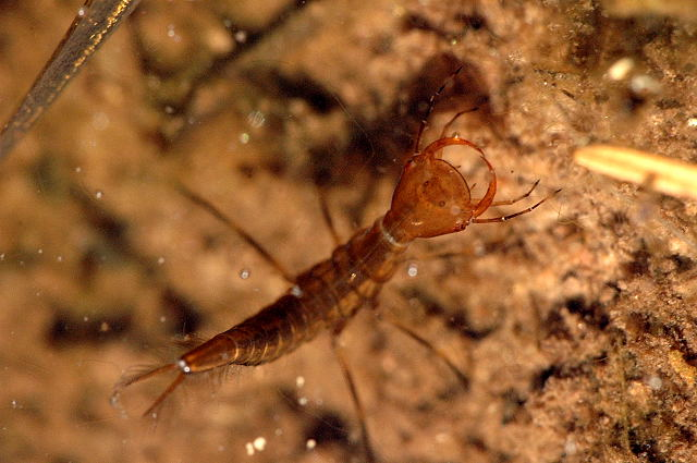 Picture taken in Commanster, Belgian High Ardennes . Species: Dytiscus marginalis larva